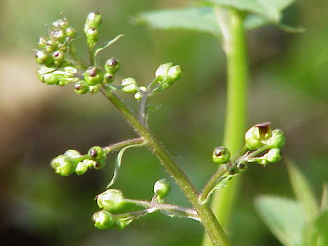 Species: Scrophularia nodosa Family: Scrophulariaceae Image No. 12